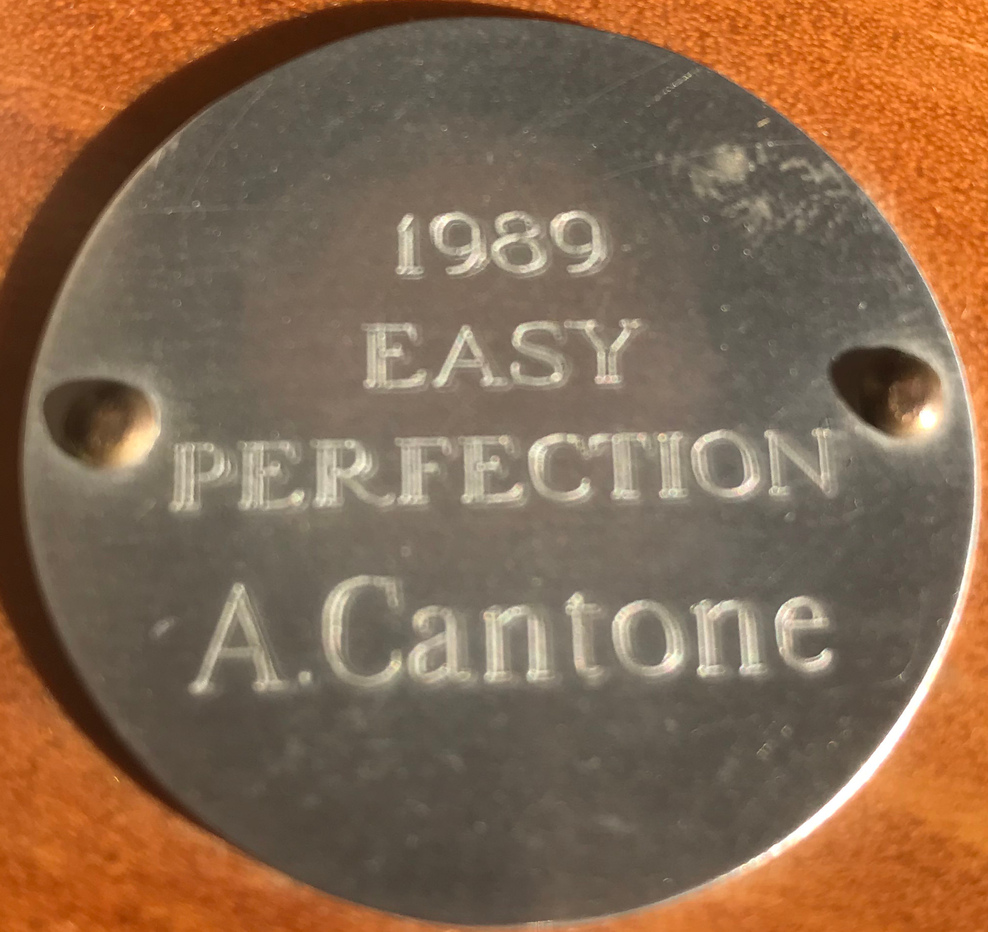 Patch on the Trophy